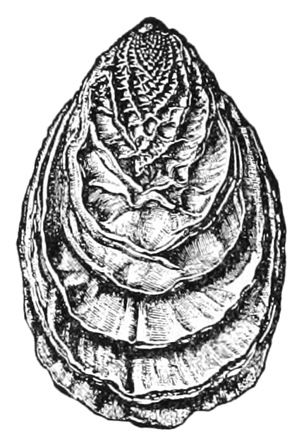 Dorsal view of the (fossil) shell of Tryblidium reticulatum Lindström, 1880 from Upper Silur of Gotland (Sweden).